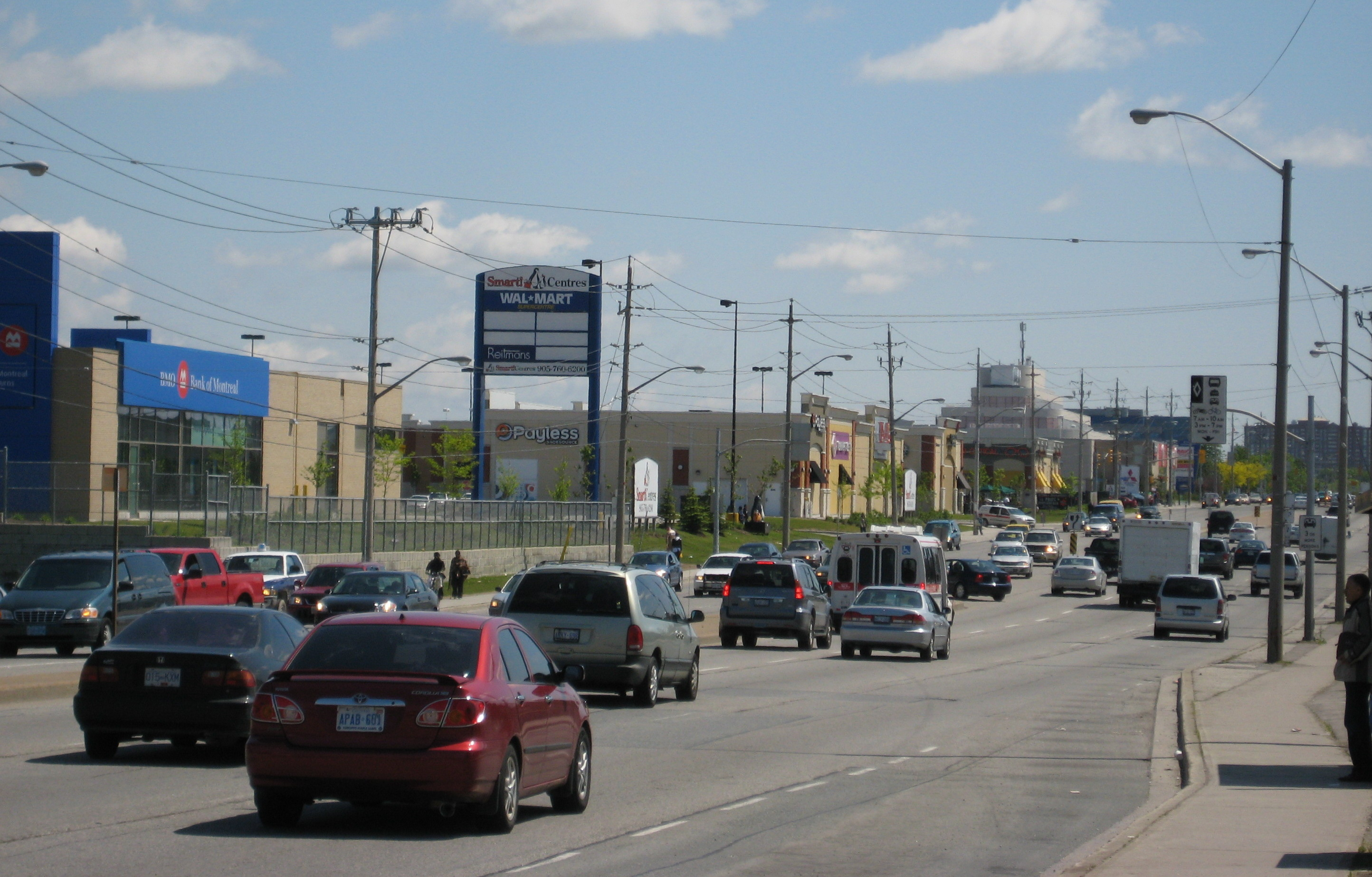 Golden Mile, Toronto (a stretch of Eglinton Avenue in Scarborough)